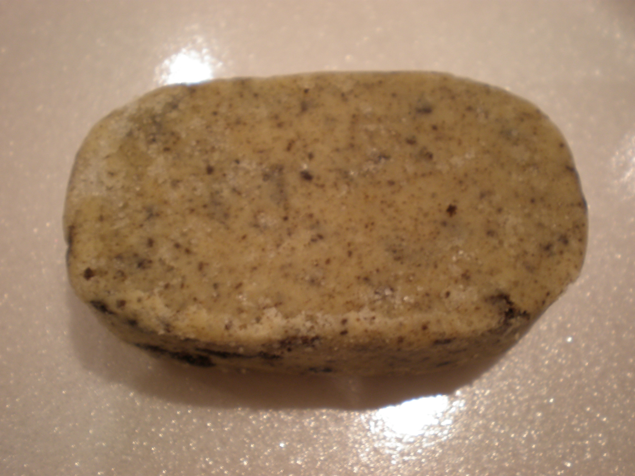 A Goldilocks cookies n' cream polvoron